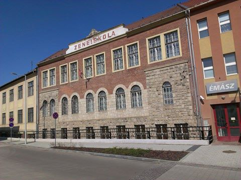 The old building of the Musician Institute and School in Miskolc, Hungary.